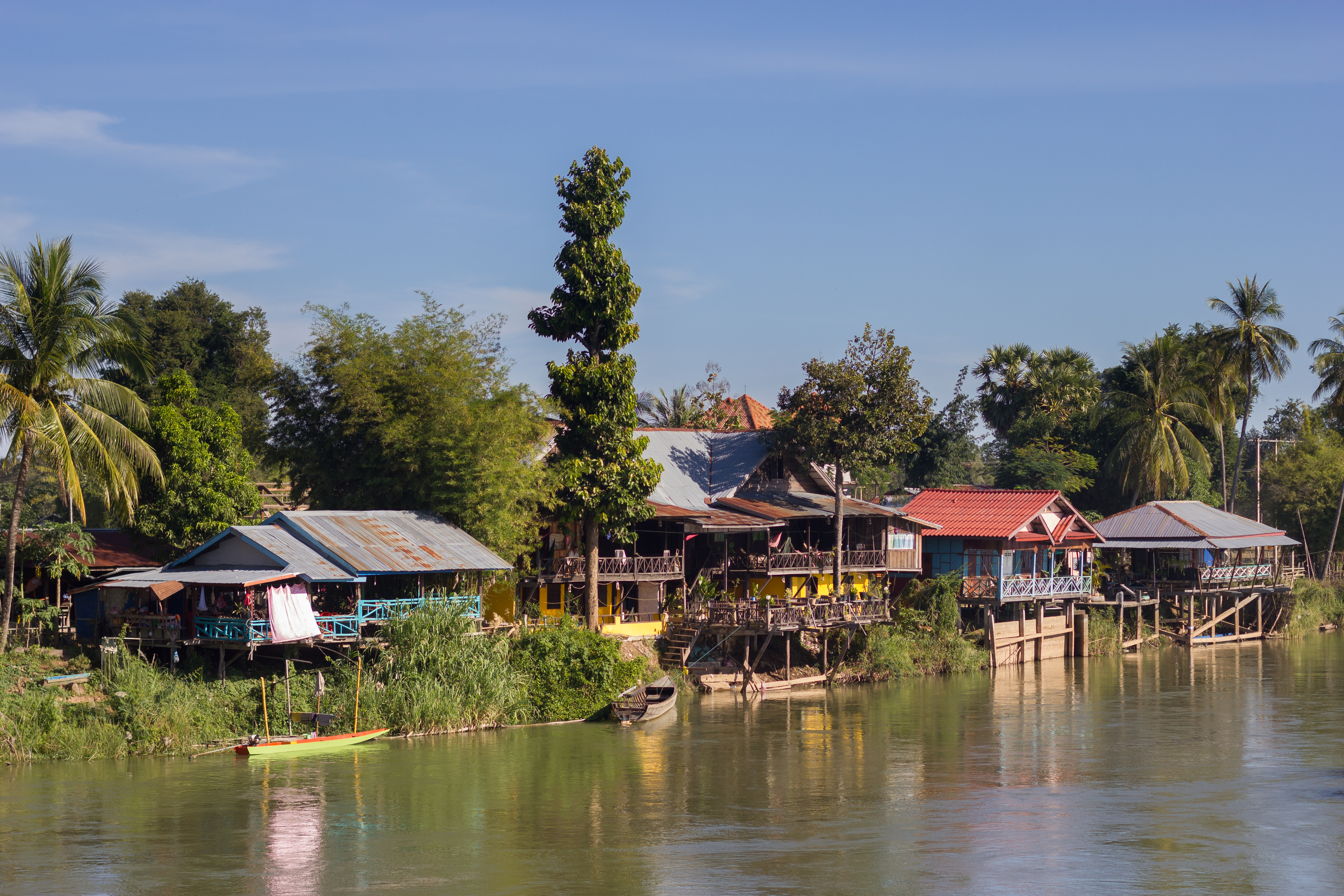 Houses and guesthouses on the bank of Don Det, seen from the bridge to Don Khon